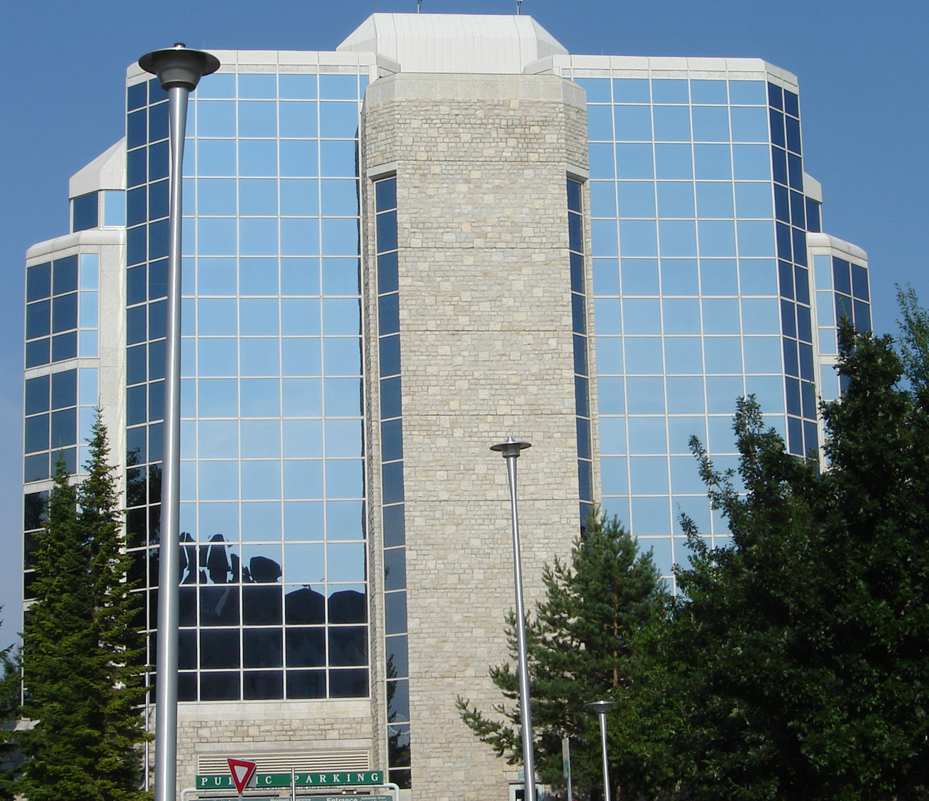 Agriculture and Bioresources CollegeU of S Saskatoon Sasktchewan Canada